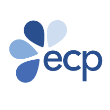 EyeCarePro, Canadian-based software company